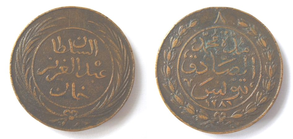 8 Tunisian Kharub coin struck in Tunis in 1281 H (1864 AD), during the reign of Muhammad III as-Sadiq Bey